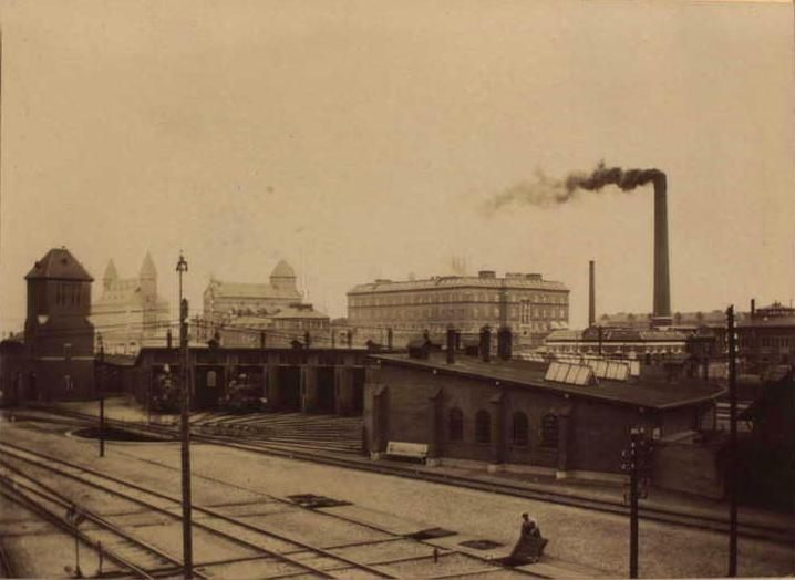 Østerport Station, the goods station area